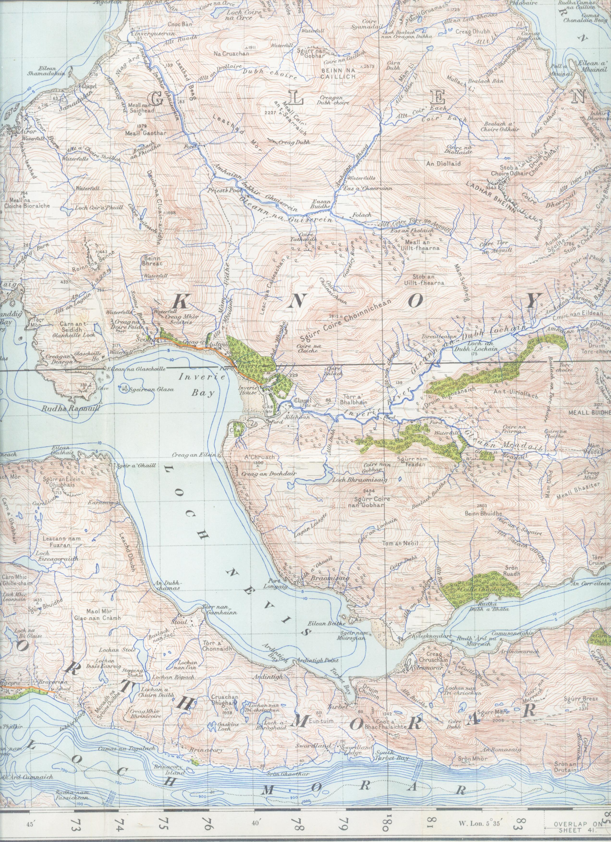 Map of Loch Nevis and surroundings from 1947. Scale 1 inch to the mile 300DPI Sheet 35 "sound of sleat"